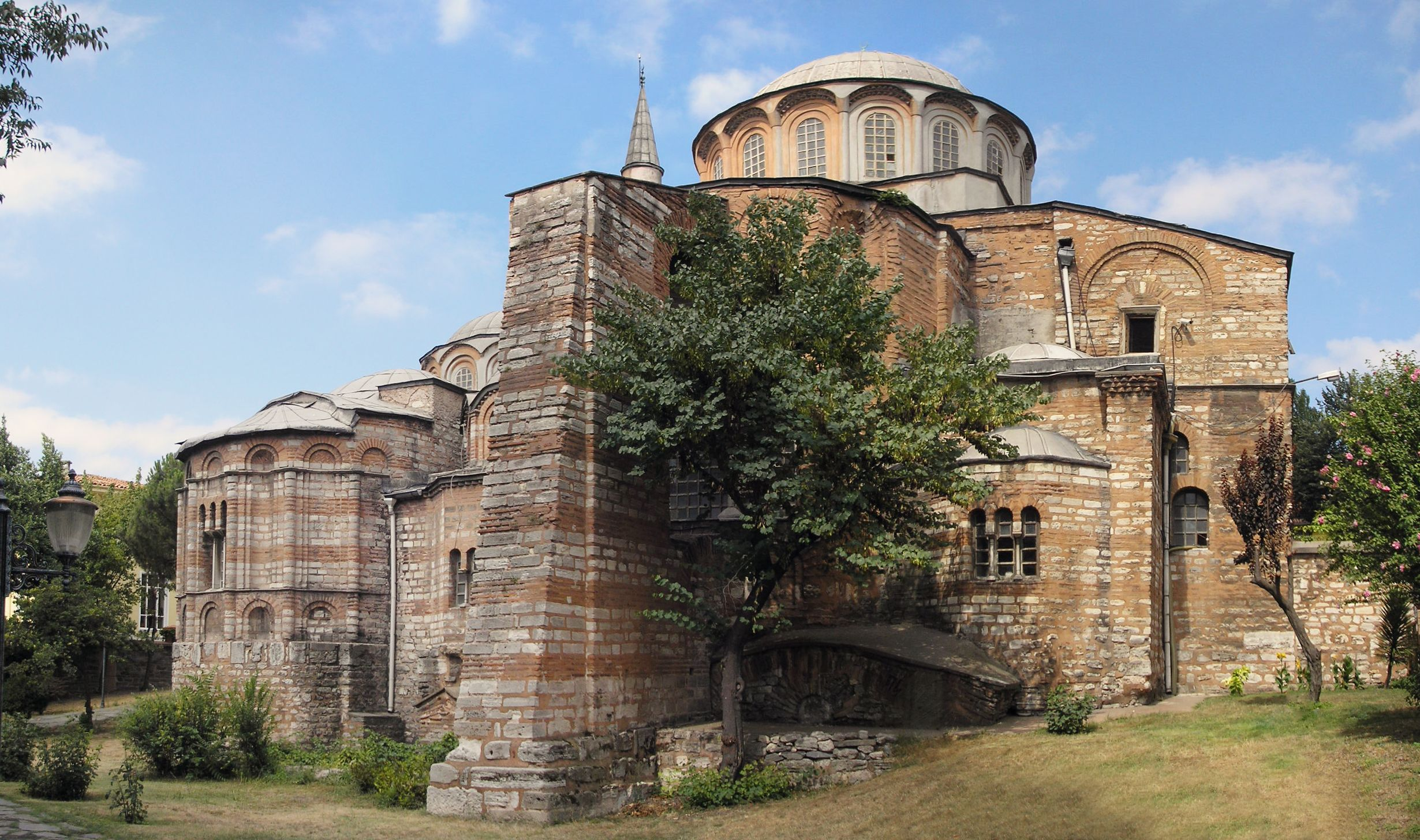 Exterior of the Chora Church in Istanbul, today a museum. It is famous for it Byzantine mosaics.